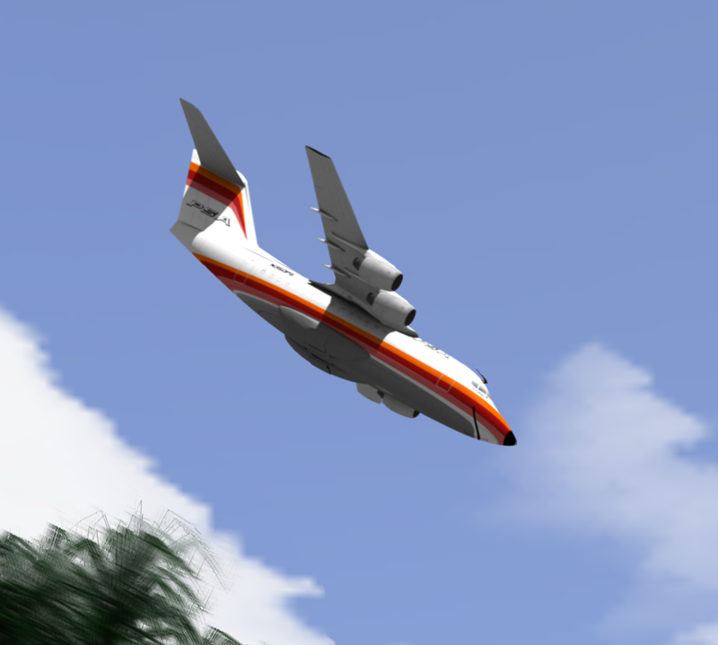 N350PS, The Smile of Stockton, was the aircraft lost on PSA Flight 1771[1]